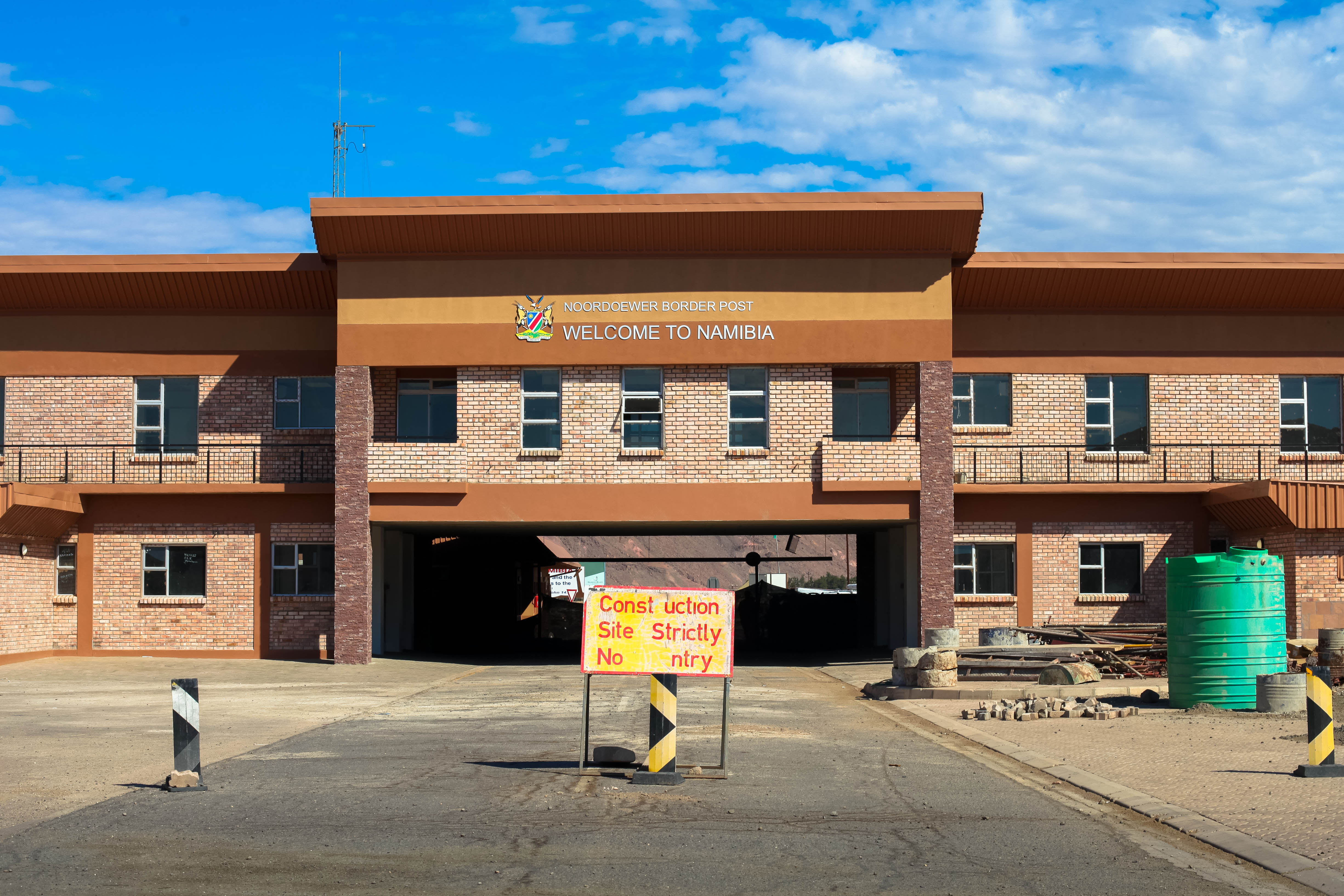 Noordoewer border post at the Namibia - South Africa Border